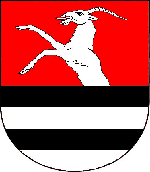 Municipal coat of arms of Bystřice pod Hostýnem town, Kroměříž District, Czech Republic.